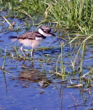 Killdeer chick, two weeks of age - hunting food in a puddle left from irrigation of a nursery. Taken at Flora Farm near Lynden, Washington.